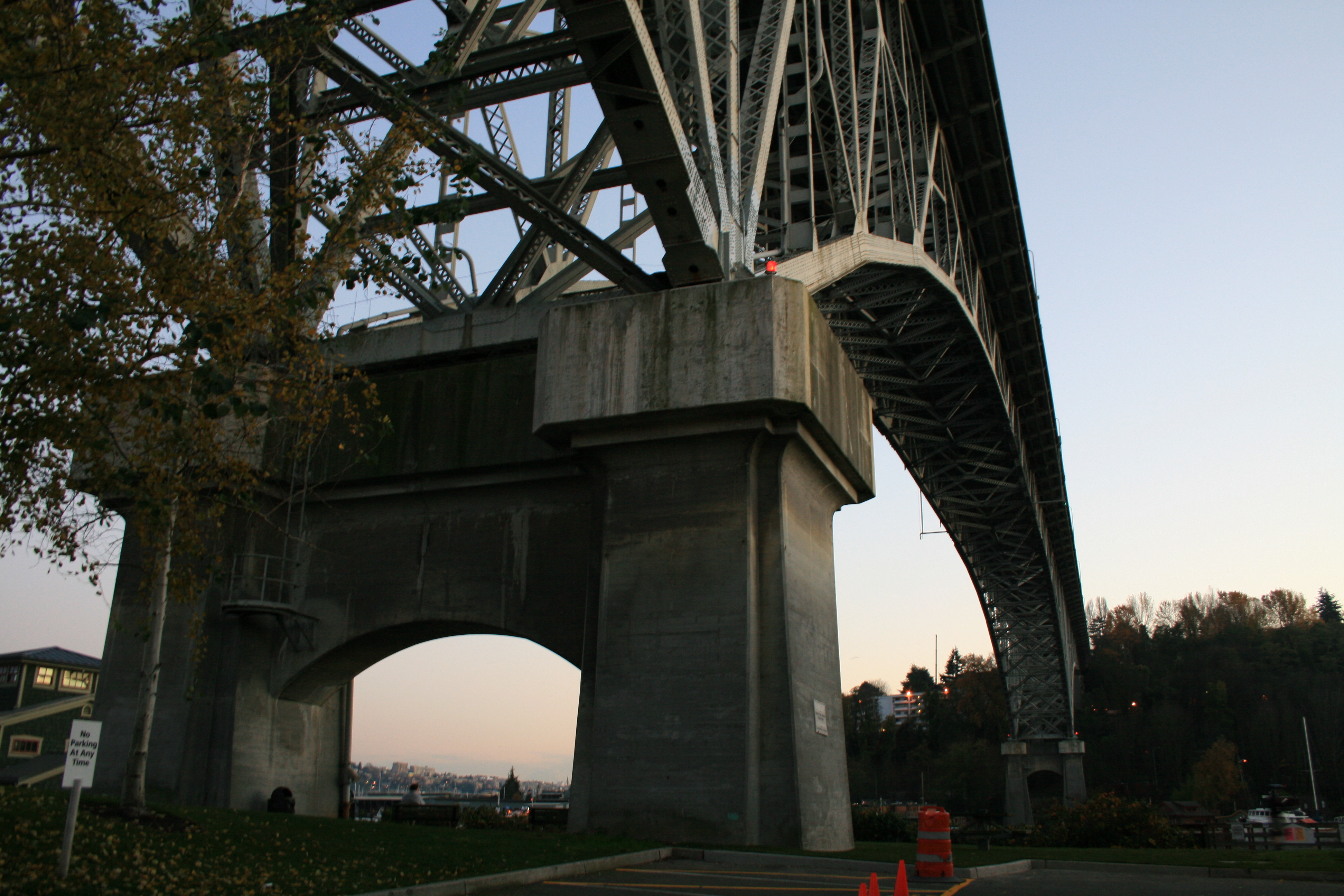 Cantilever trusses of the George Washington Memorial Bridge, from the Adobe Systems parking lot, Fremont, Washington